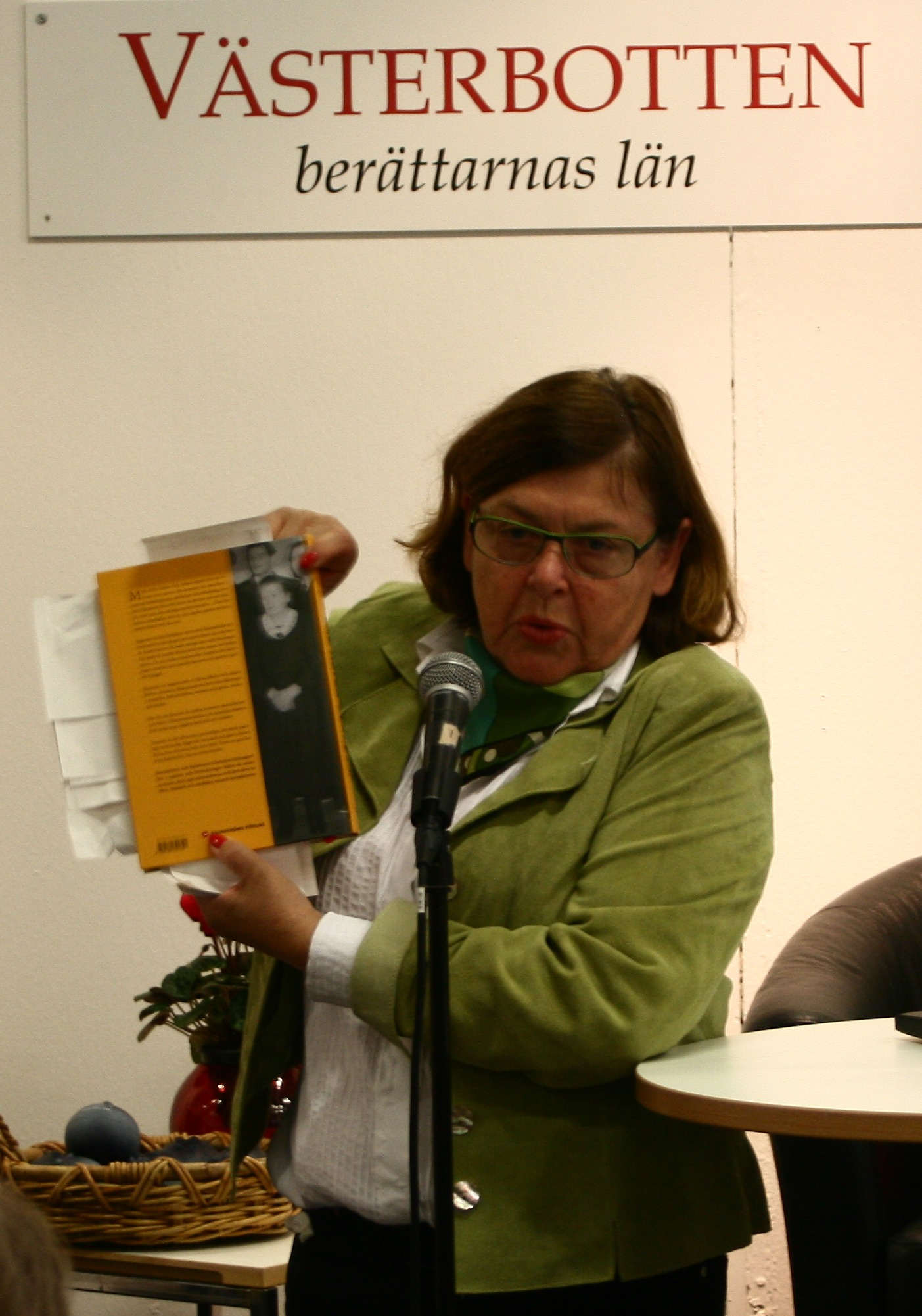 Christina Falkengård, at Göteborg Book Fair.